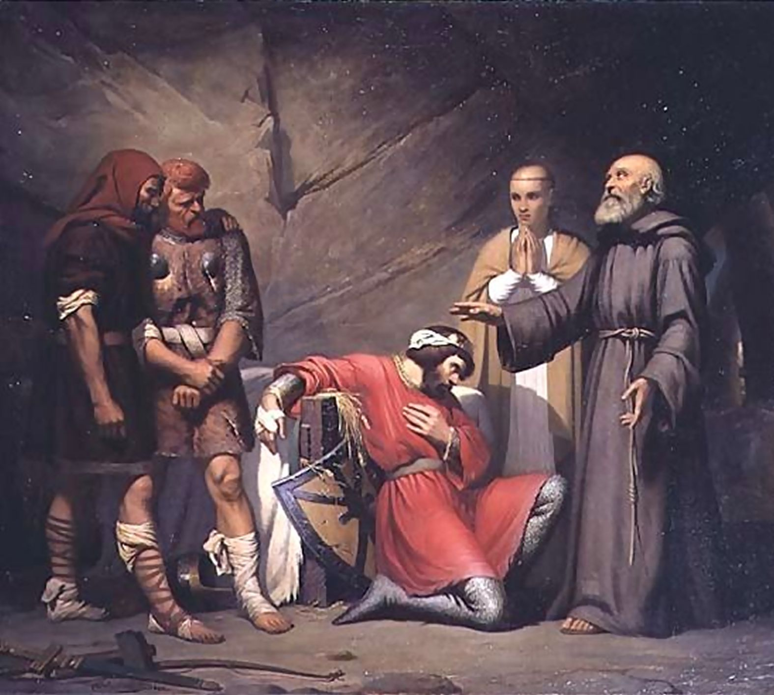 The Conversion of Robert, Duke of Normandy, known as Robert the Devil(1840)